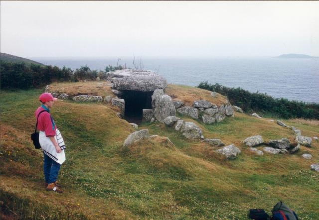 Bant's Cairn. Chambered tomb on St Mary's, Isles of scilly